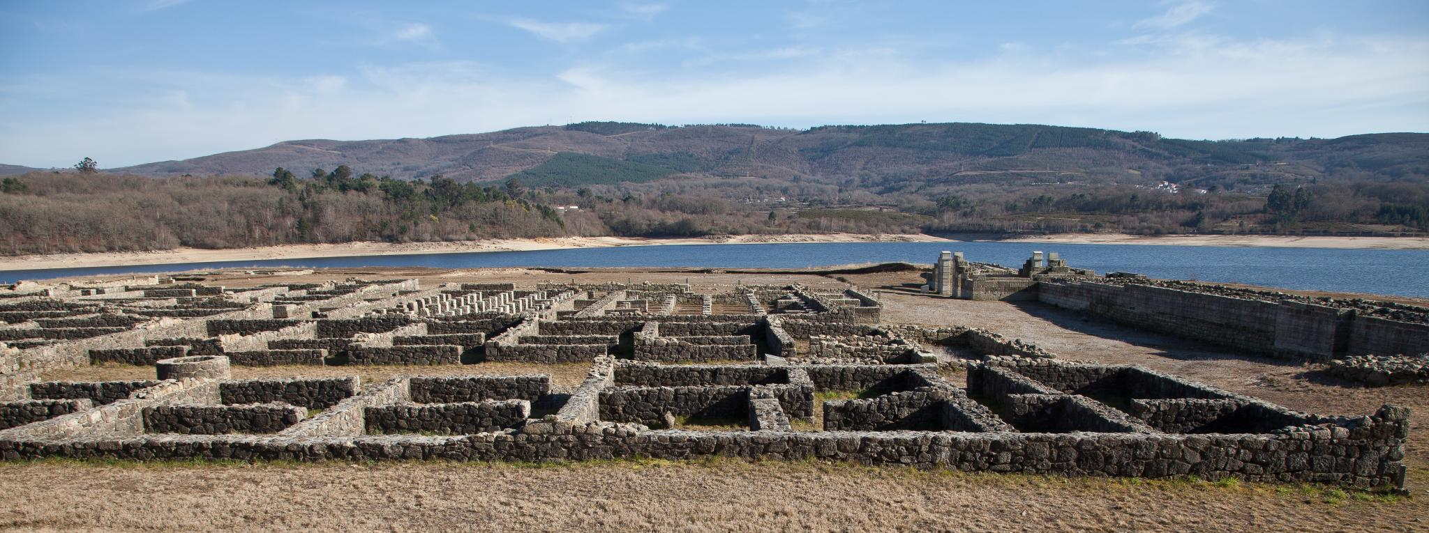 "Strigia", First barracks of the troops, Aquis Querquennis, Galicia (Spain)